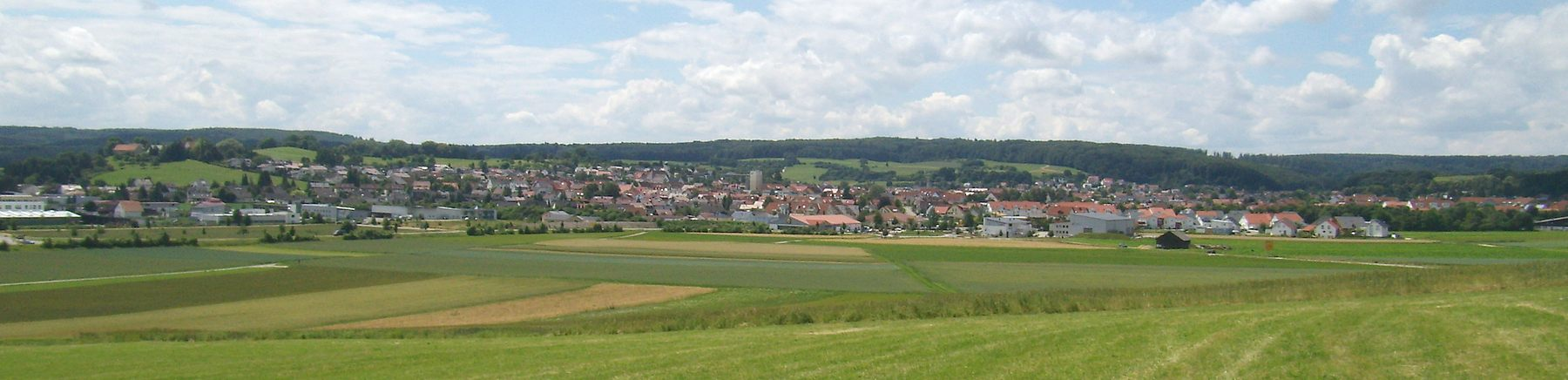 View over the "Steinheimer Becken" impact crater, Southern Germany